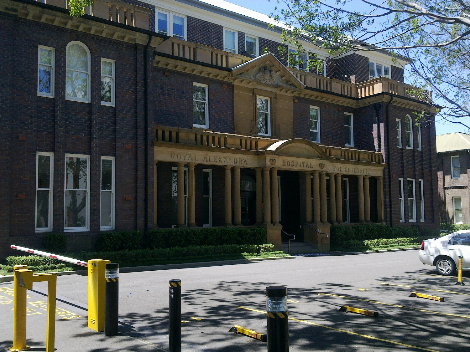 The main building of the Royal Alexandra Hospital for Children from 1906 onwards, on Pyrmont Bridge Road, Camperdown, NSW. Photographed in 2012, when its main use was for property administration.